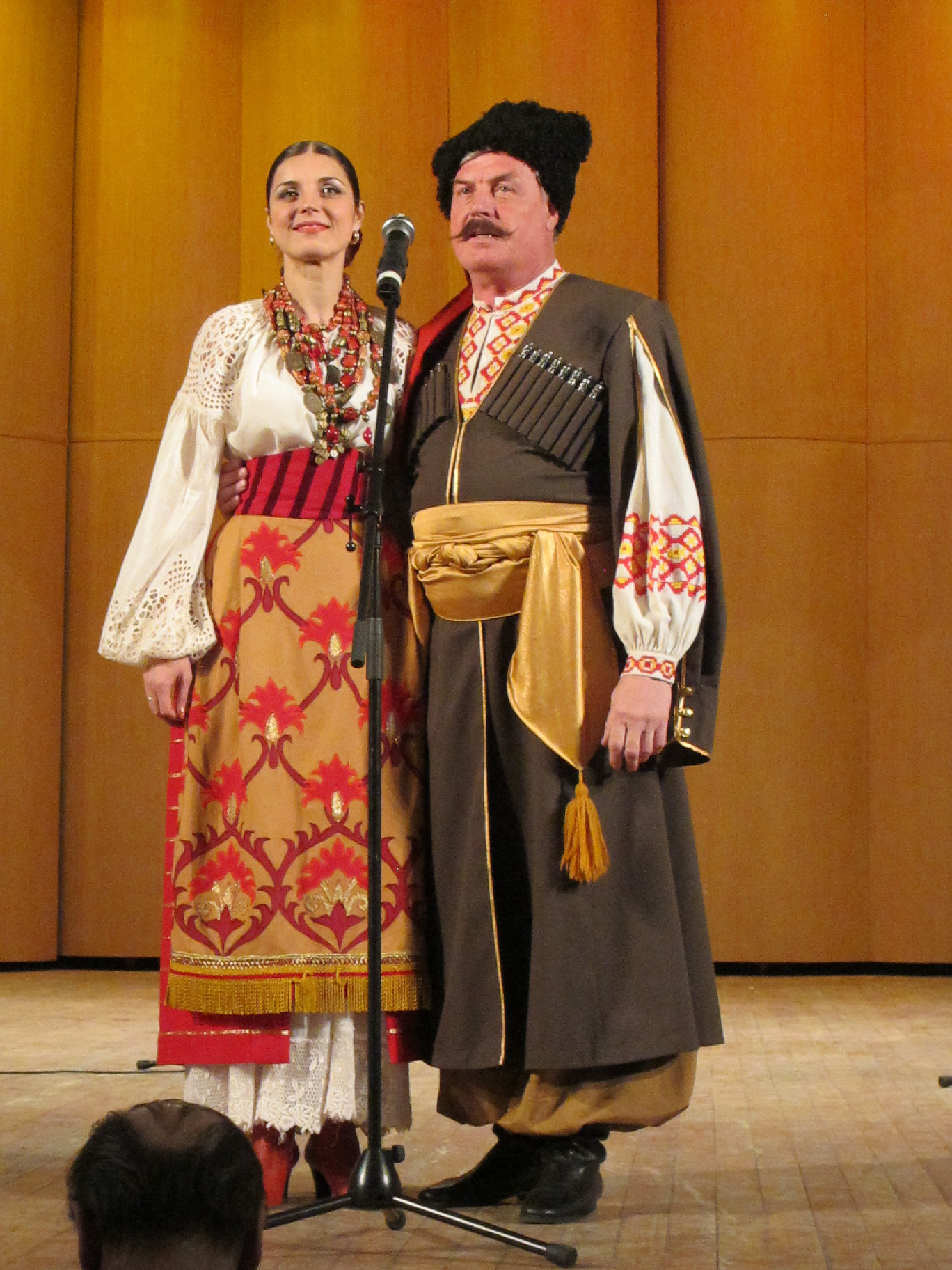 Kuban Cossack Choir at Gnessin Russian Academy of Music in Moscow, directed by Viktor Gavrilovich Zakharchenko.